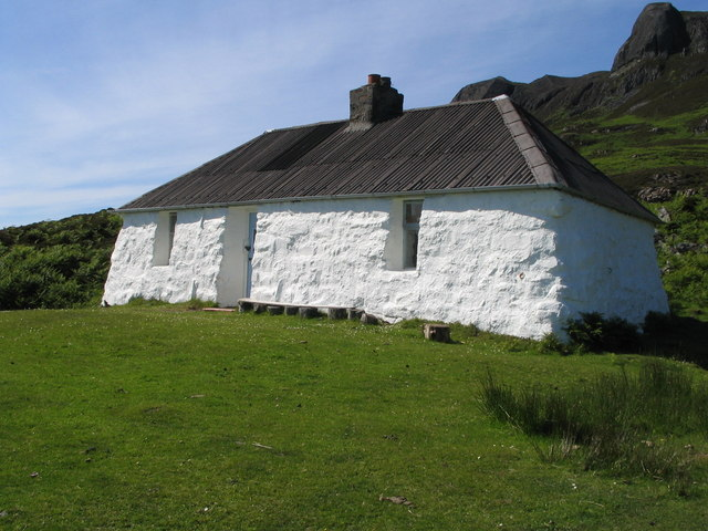 Grulin Uachdrach Restored croft house in the township of Grulin Uachdrach (cleared of its population in 1853 to make way for sheep) at the foot of An Sgurr